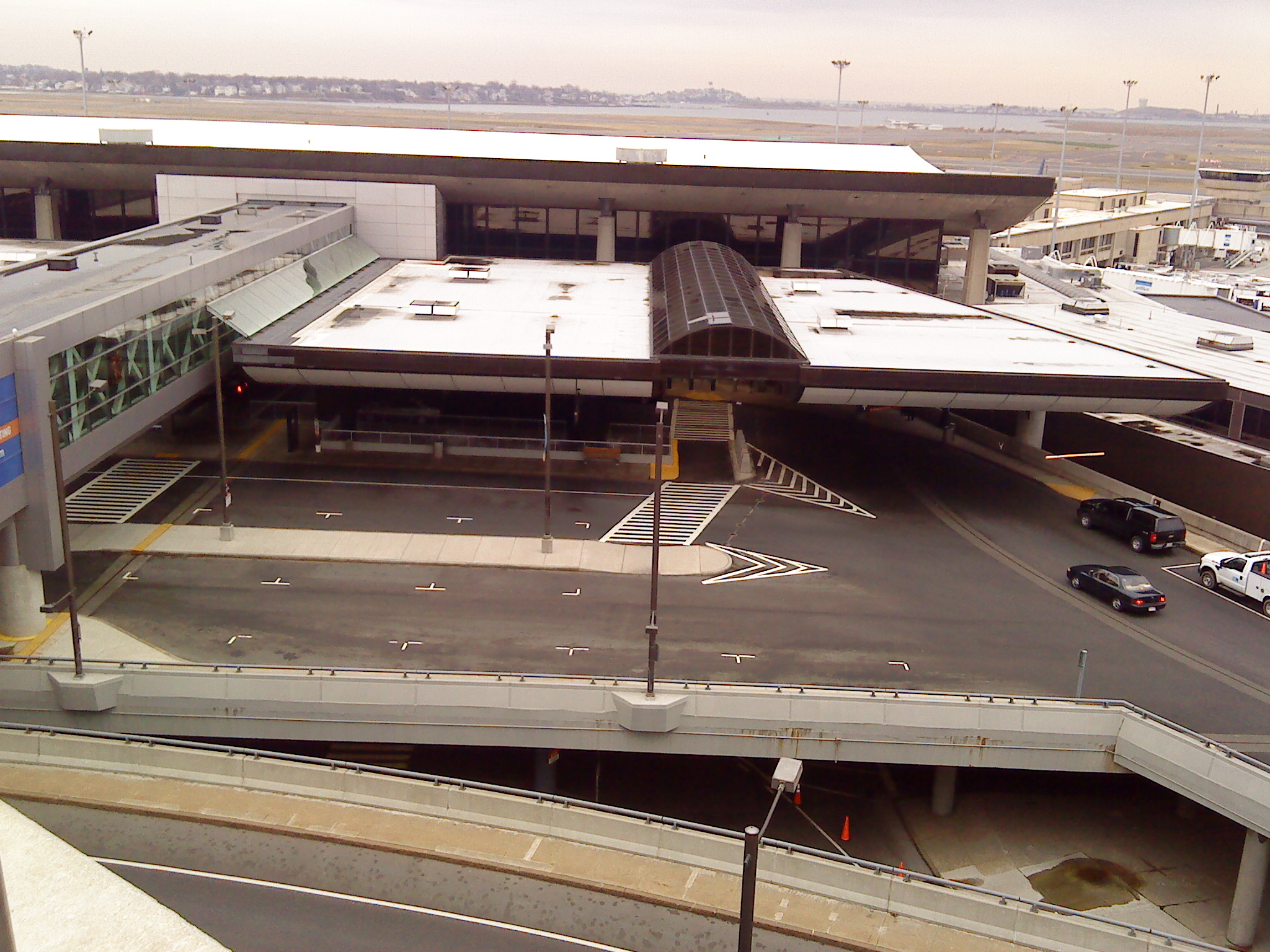 Terminal C, at Boston's Logan International Airport.